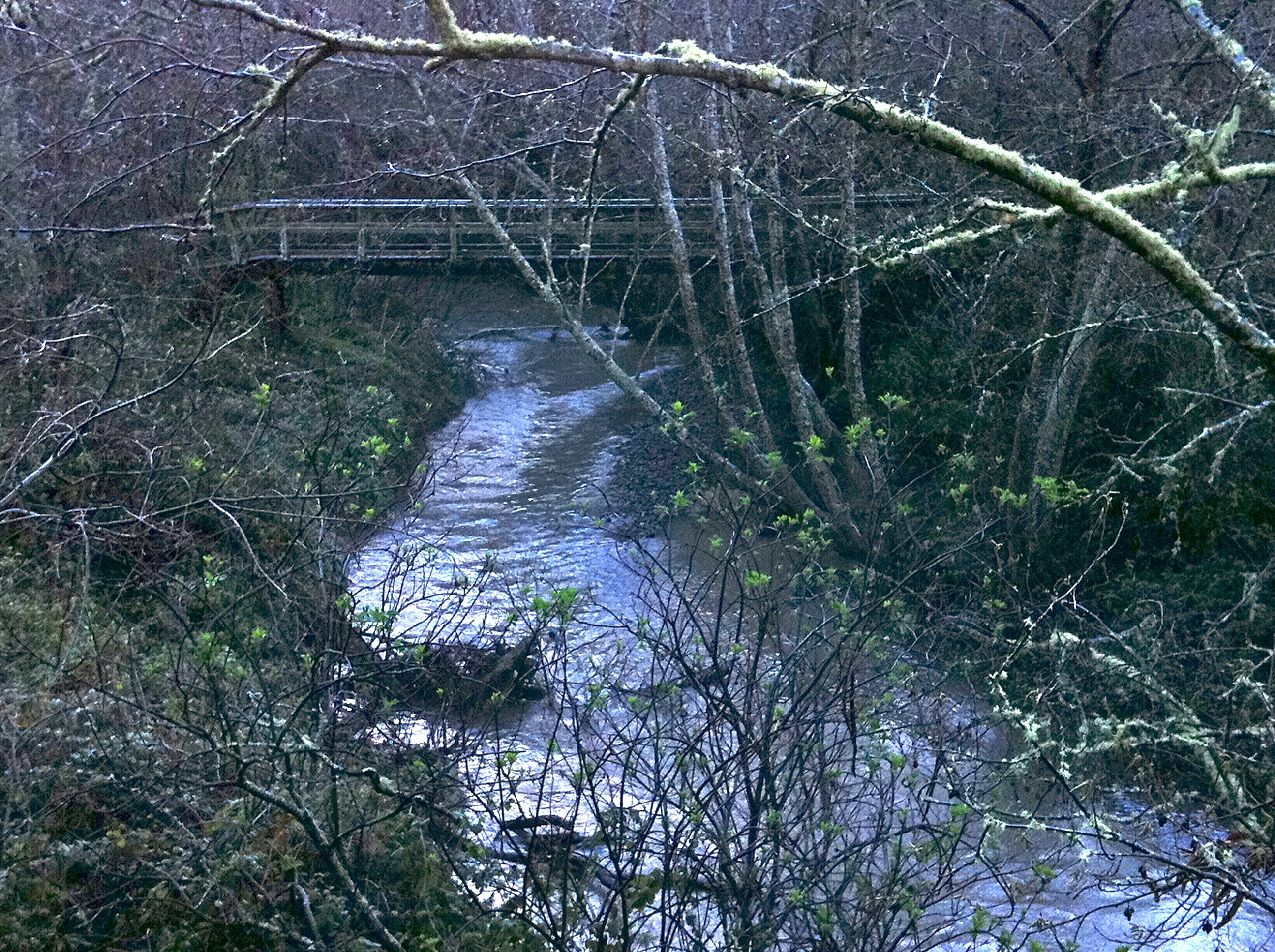 Redwood Creek about one mile down from Muir Woods